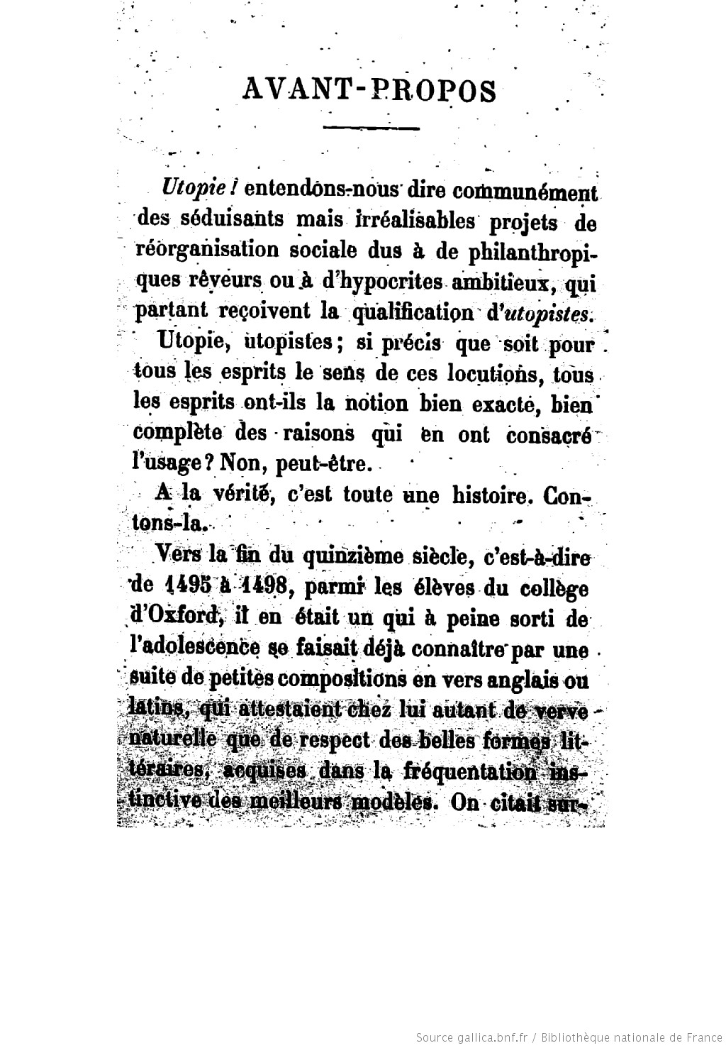 This is the first page of Eugène Muller's "Avant-propos" written for his edition of Thomas More's "Voyage à l'île d'Utopie" (1888)